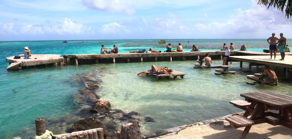 "The Split", Caye Caulker, Belize